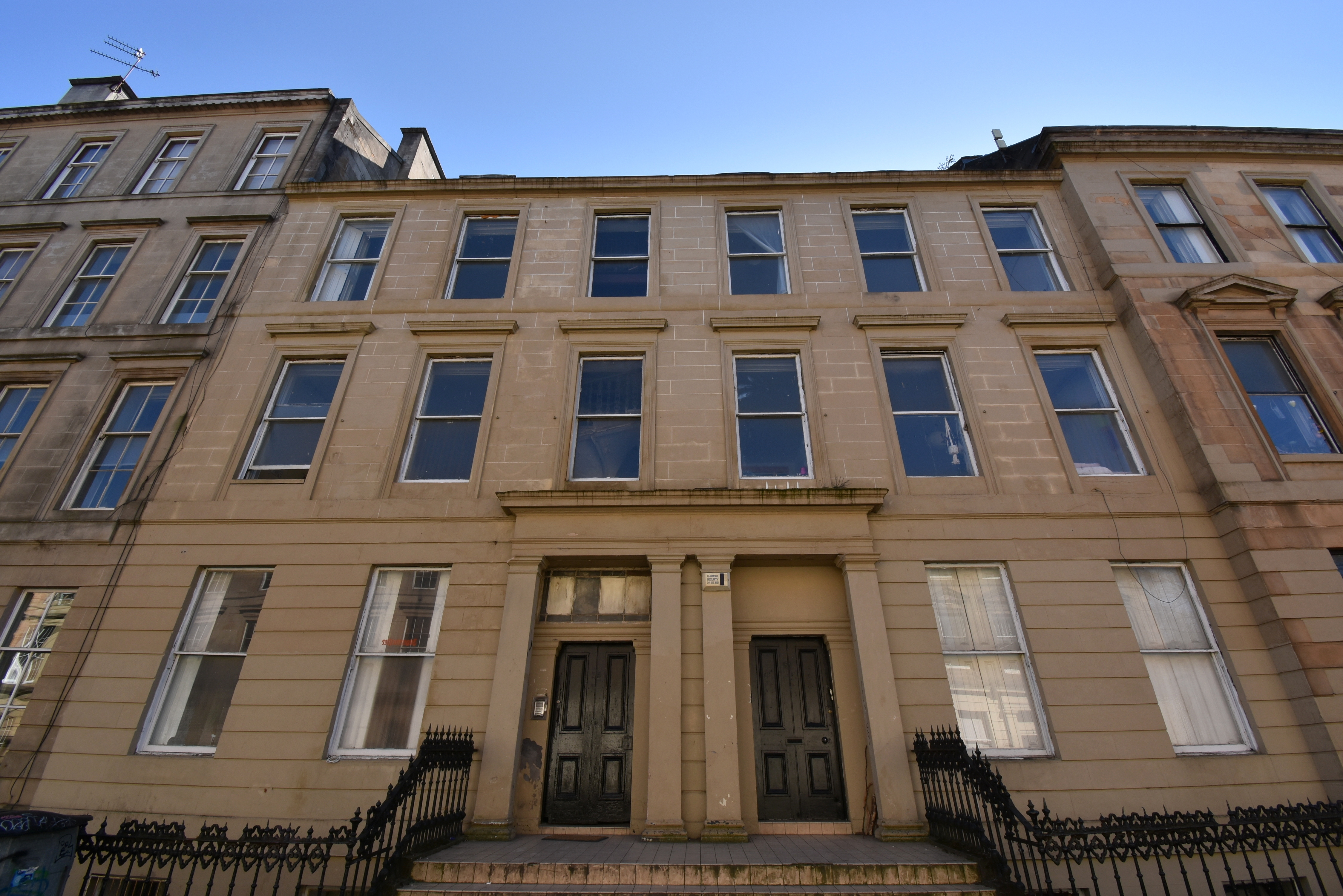 Glasgow. Woodlands. 49 West Princes Street. Marion Gilchrist's house. Marion Gilchrist, a spinster, aged 83 was bet to death in a robbery in December 1908. Oscar Slater was charged with the murder of Gilchrist. Building (tenement block) circa 1850, architect: John Bryce (c. 1805-1851, see: Dictionary of Scottish Architects